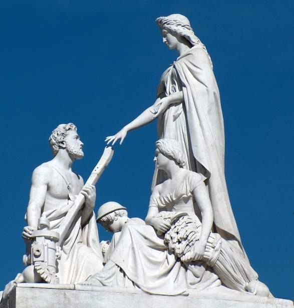 "Agriculture" at the Albert Memorial, by William Calder Marshall